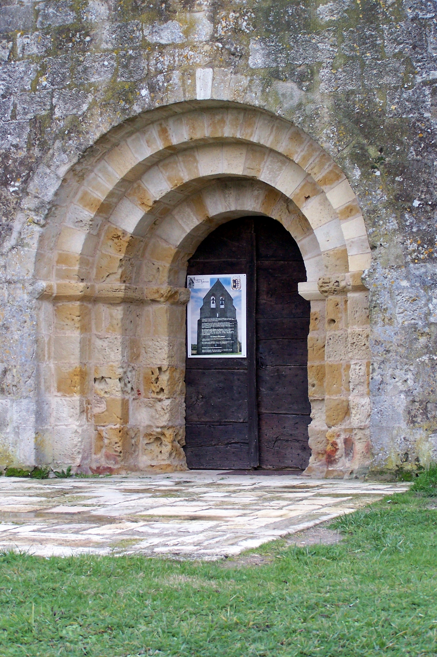 Portal of the church Saint-Germain of Auros (Gironde, France)